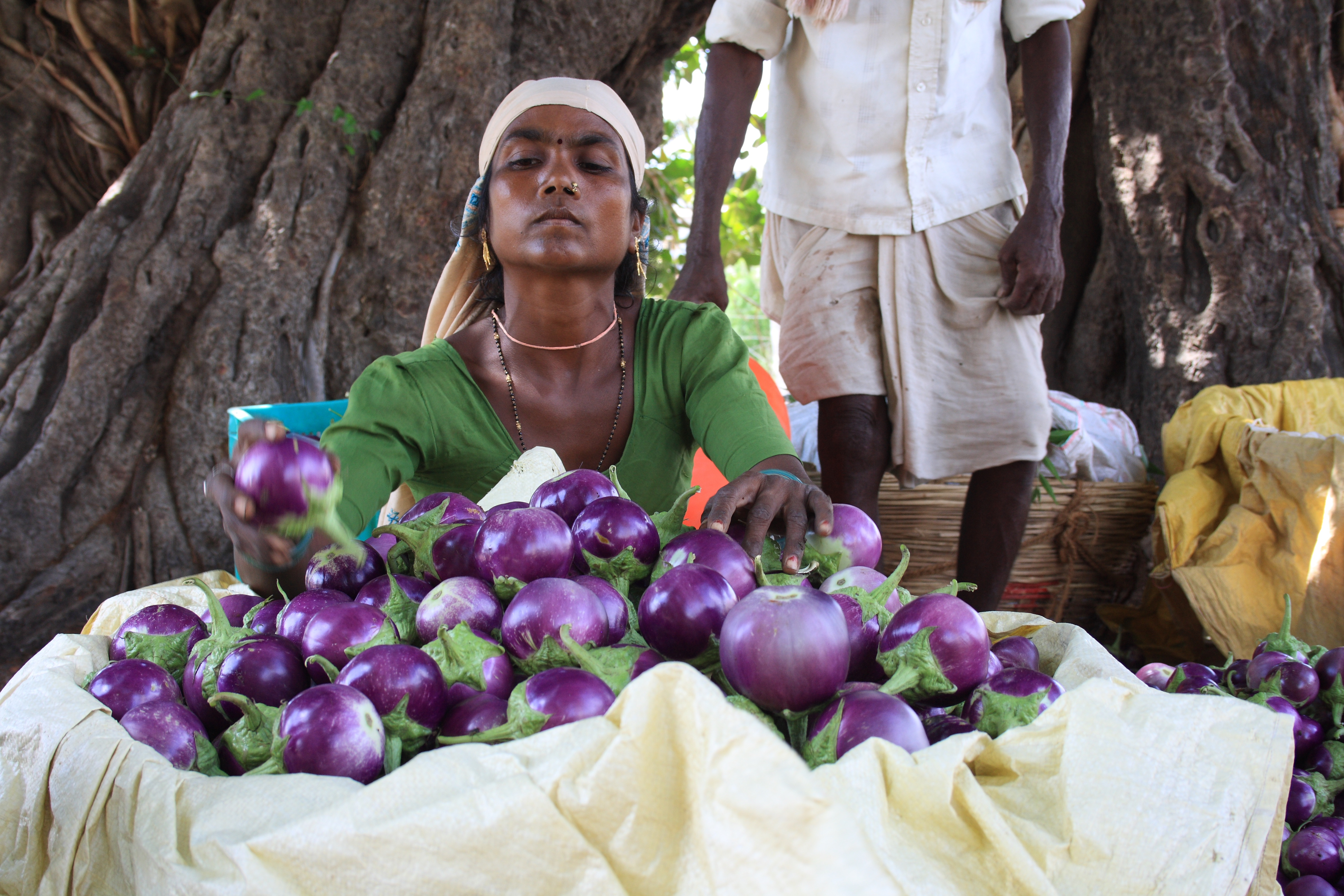 An farm worker assorting eggplants of different quality classes. Taken on a farm in the village of Sejwat in the Indian state of Gujarat.